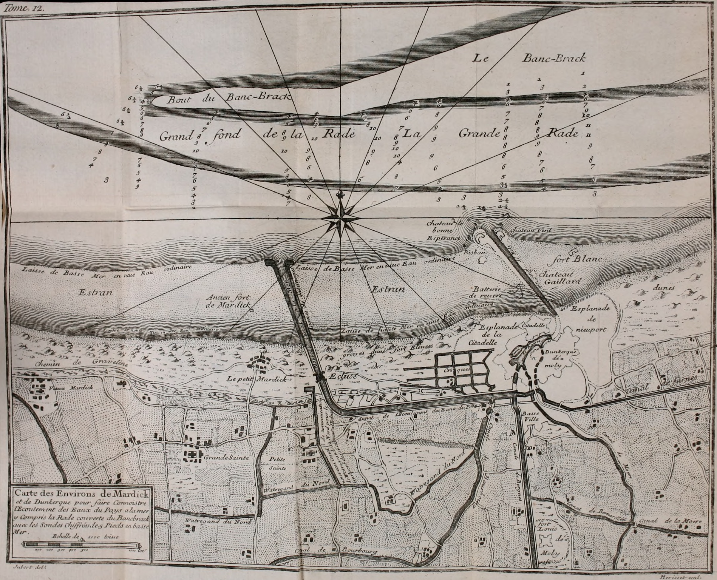 Title: Nouvelle description de la France: dans laquelle on voit le gouvernement general de ce royaume, celui de chaque province en particulier; et la description des villes, maisons royales, châteaux, & monumens les plus remarquables Year: 1753 (1750s) Authors: Piganiol de la Force, M. (Jean-Aimar), 1673-1753 Subjects: Publisher: Paris : Chez guillaume Desprez Text Appearing Before Image: Ihgc 4-jS. Text Appearing After Image: ) de D rj N :: hrqu e. 419&: de combler enfuitc le port de Dun-kerque, de manière quil ne donnât àlavenir aucun fujer de jaloufie aux An-plois. Cet:e propofirion fut rejertée parla Reine Anne *, & le Sieur ArmûromgyIngénieur principal de cette PrincefTe,dit à M. le Blanc, Intendant de la Pro-vince, quil Falloir que le traité dUtreckfût exécuté dans tout fon entier \ maisque lon pourroit faire écouler les eauxdu pays par Nieuport. Comme cetteVille néroit pas fous la domination duRoi, cette proportion ne fut pas plusdu goût de la France, que la premièrelavoir, été de celui de la Reine Anne.LIngénieur Anglois propofa enfuitcde faire écouler les eaux par Graveîi-nes-, mais le (leur de Moyenville, Di-recteur des fortifications des Places de -ce Département, 6V le fieur Armfiromgayant travaillé de concert fans en pou-voir trouver les moyens , lIngénieur Anglois dit que lon fît cet écoulement par où lon pourroit, &c que cétoic à la -France den trouver